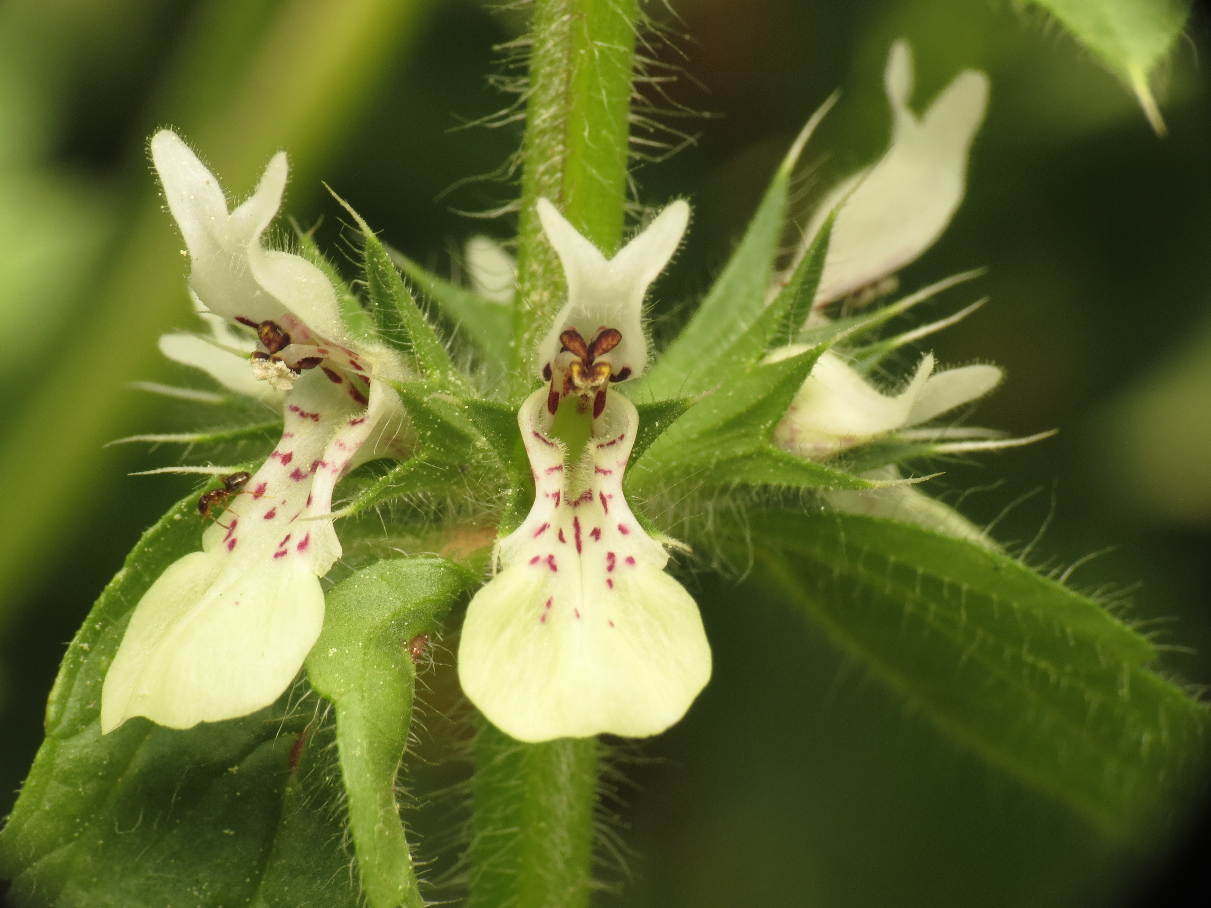 Stachys ocymastrum (L.) Briq., Parc Güell, Barcelona, Spain, 11 May 2013